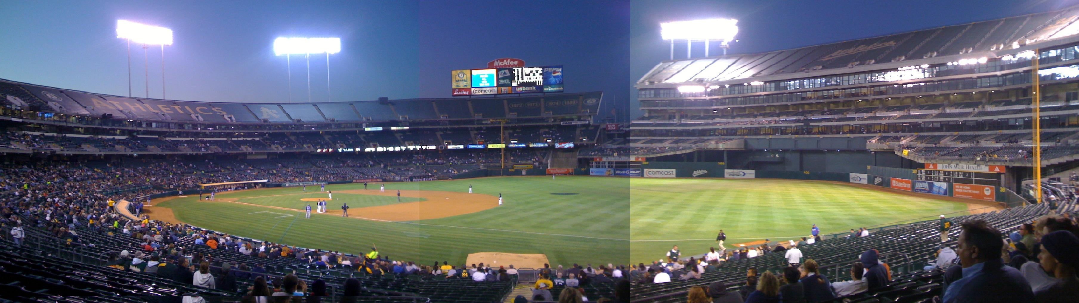 Oakland Coliseum Sept 08